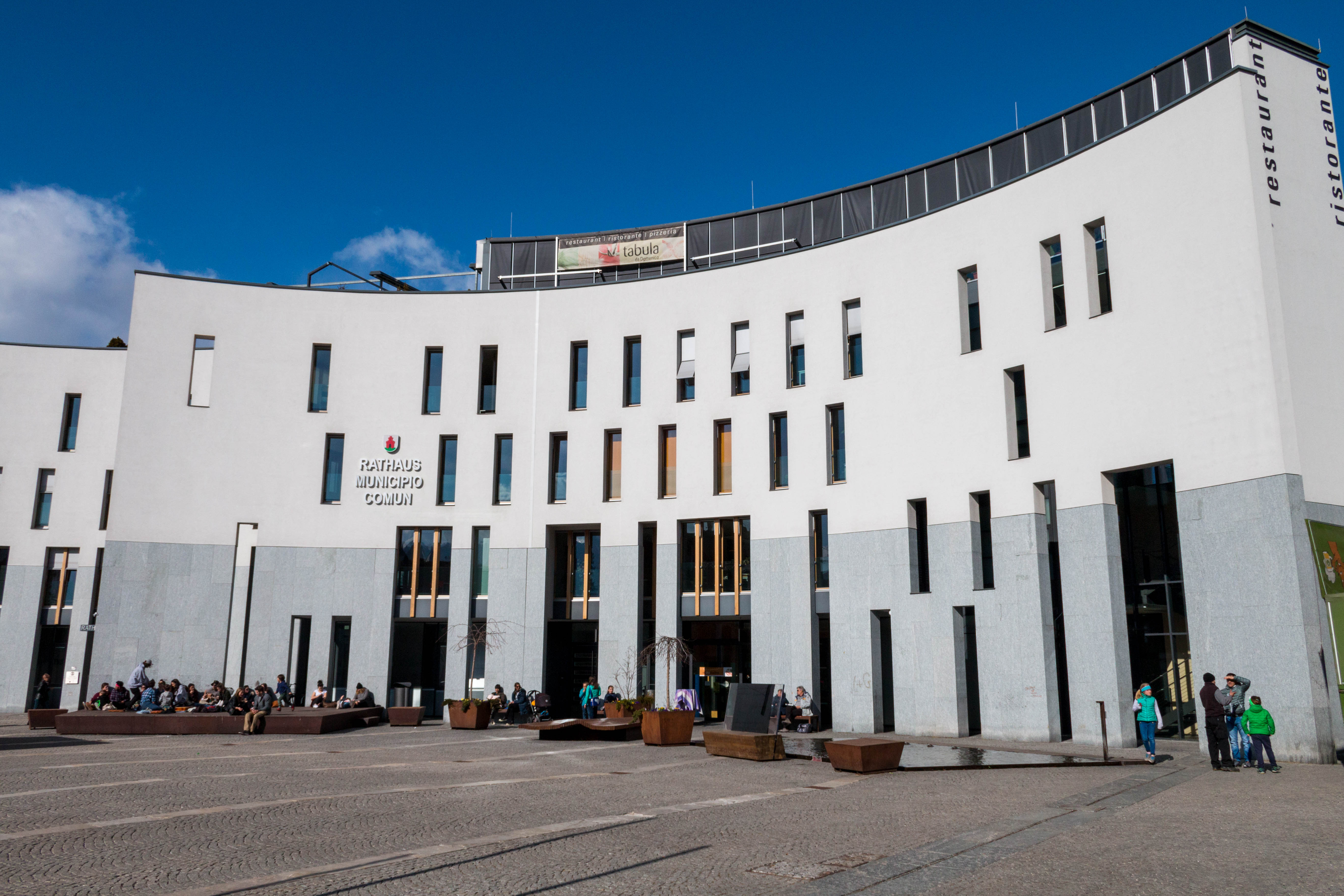 Townhall of Bruneck